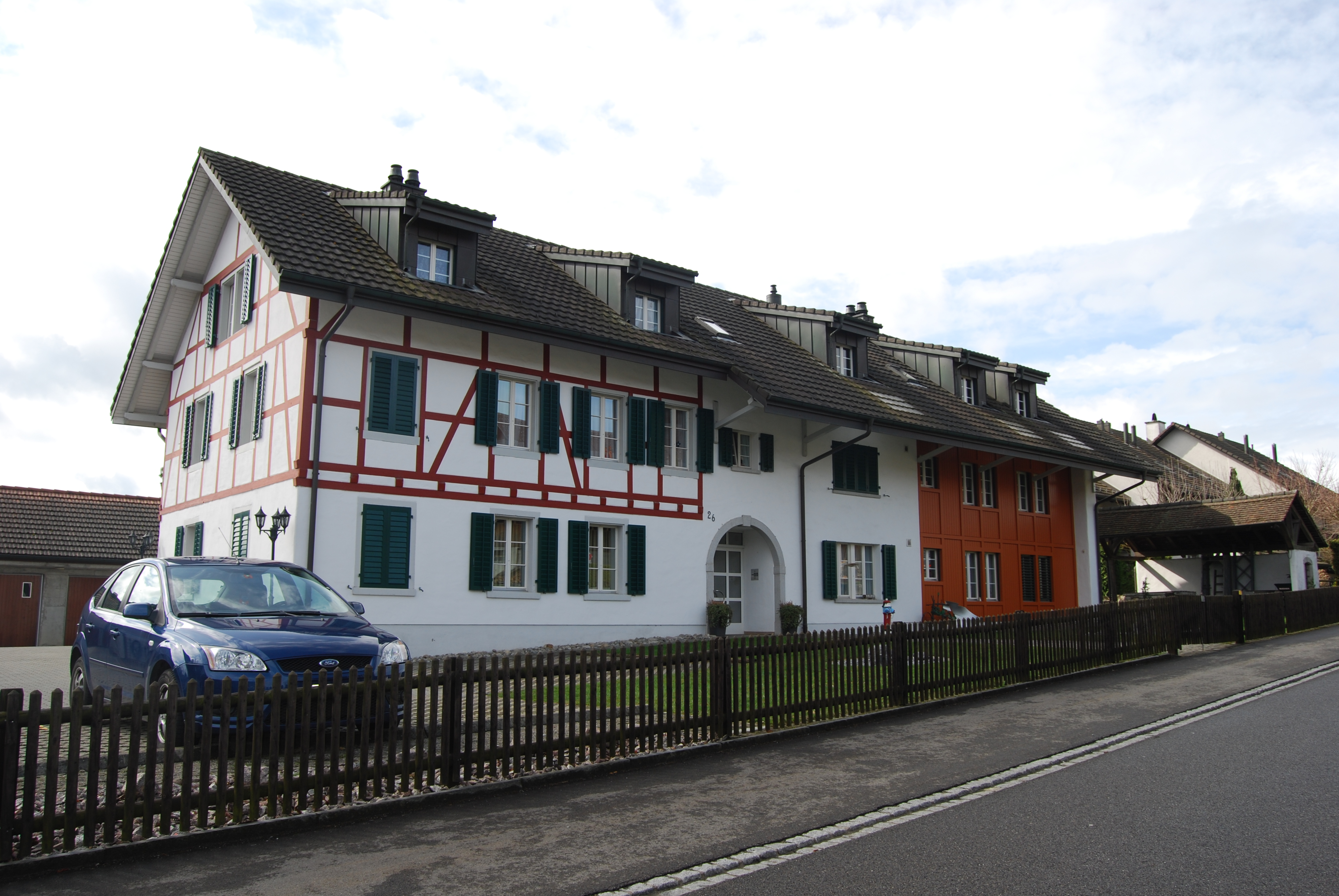 Timber framing house at Birrhard, canton of Aargau, SwitzerlandEsperanto: Faktrabdomo en Birrhard, Kantono Argovio, Svislando